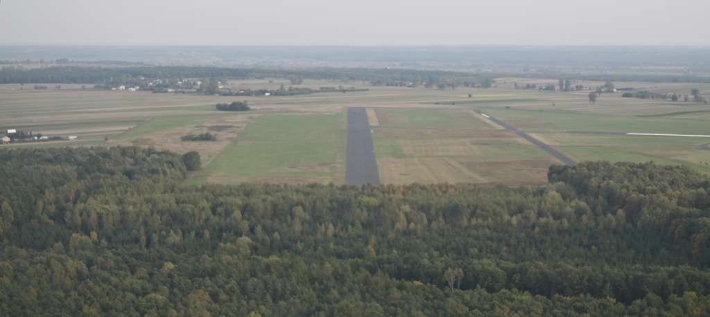 Panorama lotniska w Ułężu